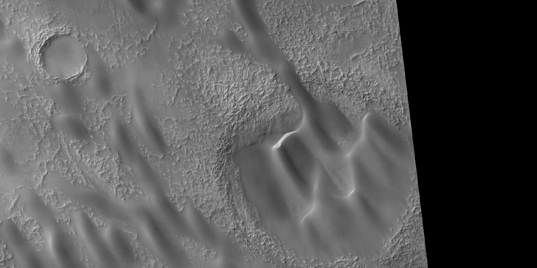 Dunes in Phaethontis quadrangle, as seen by HiRISE under HiWish program